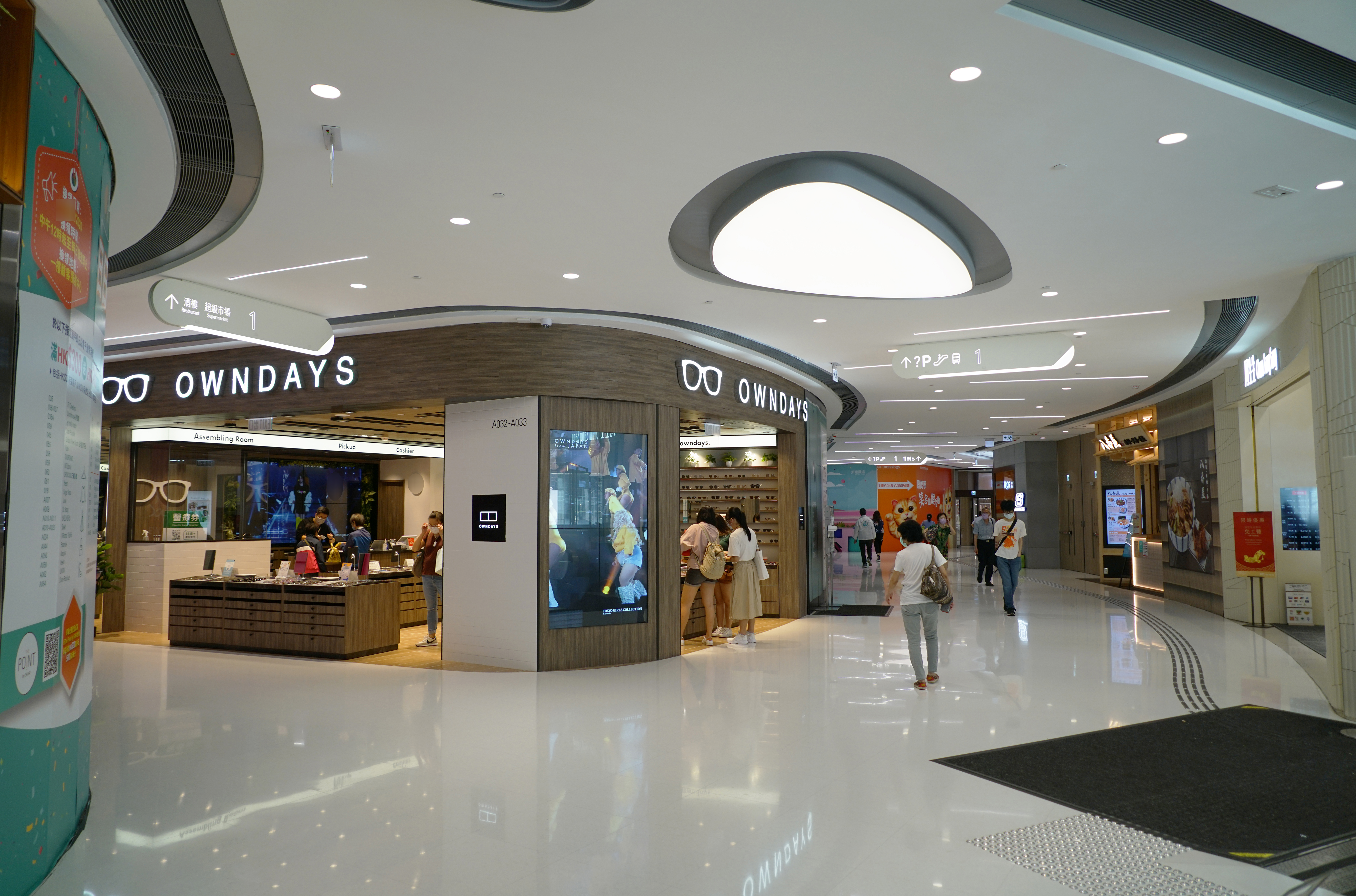 Uptown Plaza, Hong Kong.